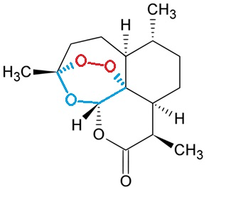 Structure of Artemisinin highlighted trioxane ring in blue and endoperoxide in red